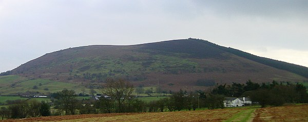 Corndon Hill. Looking south from Stapeley Common towards Corndon Hill 513m